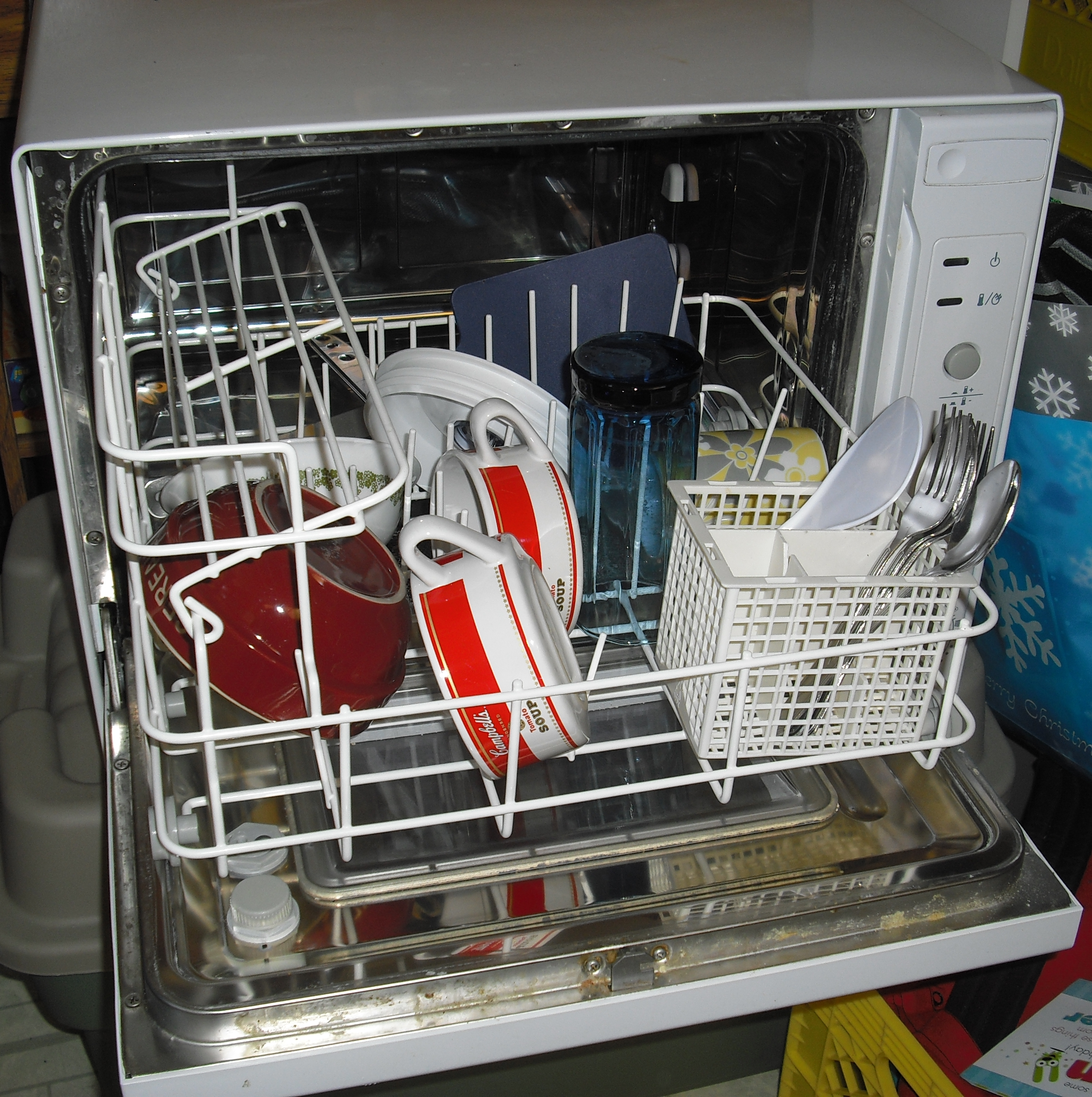 A countertop dishwasher